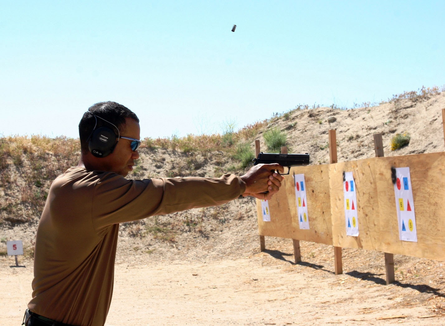 Professional golfer Tiger Woods shoots a handgun during training at a shooting range outside San Diego, Calif., May 31, 2006. Navy SEAL instructors assigned to Naval Special Warfare Center at Coronado taught Woods basic marksmanship skills during a recent visit. VIRIN: 060531-N-9419C-617